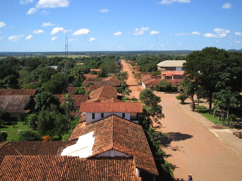 San Ignacio de Velasco. Runa Simi: San Inasyu.